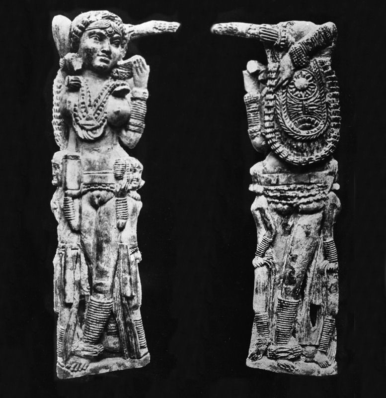 Pompei Indian Statuette front and back. Studio/July,49,A05c“GODDESS OF LOVE”Indian ivory figure found at Pompei. Early 1st century.